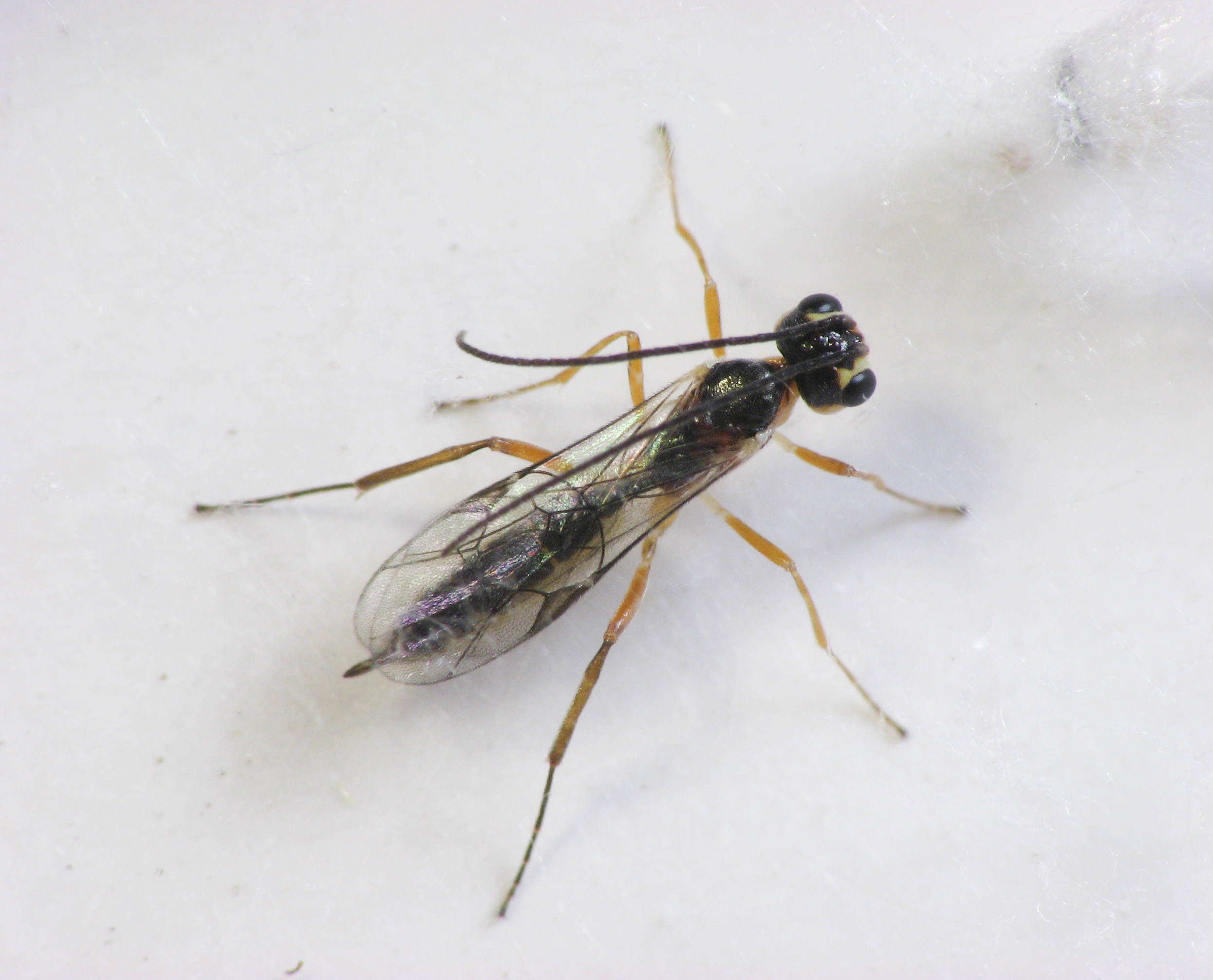 Ichneumonid wasp, Hercus fontinalis, adult female. Size: ~ 4-5 mm. Pennypack Restoration Trust, Montgomery County, Pennsylvania, USA.